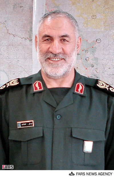 An undated photo of Brigadier General Shushtari in IRGC officer's uniform.